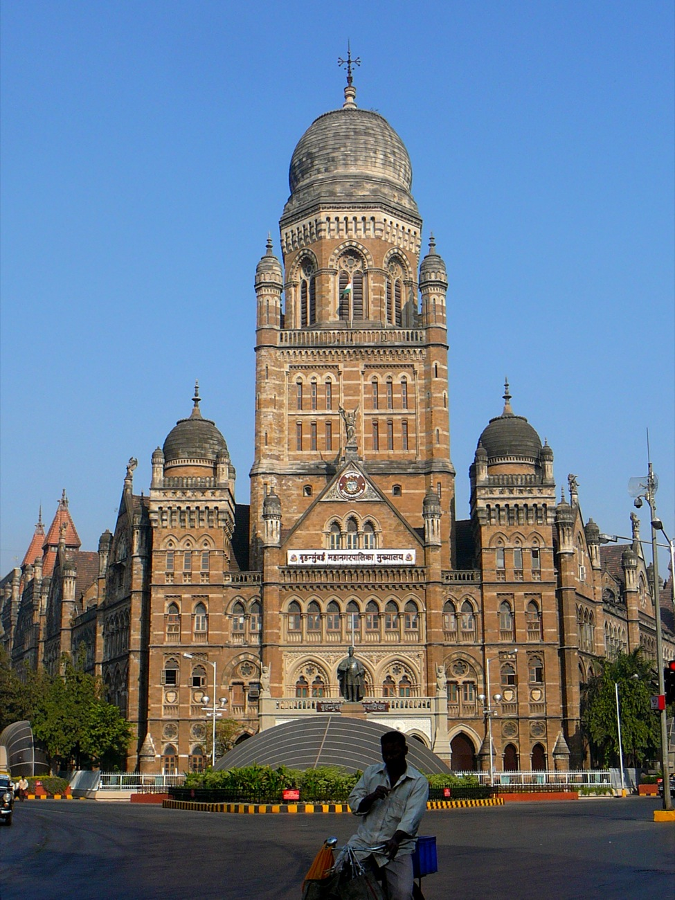 Municipal Corporation Building, Mumbai.